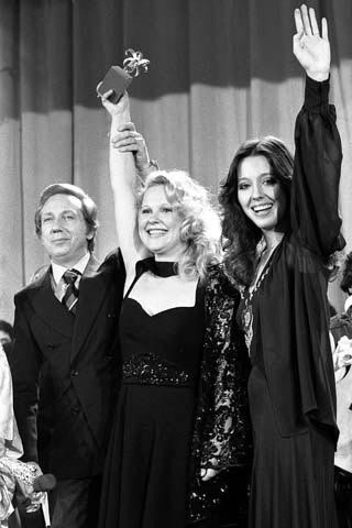 The Italian singer Gilda (Rosangela Scalabrino) in the middle showing the award to the winner of the 25th Sanremo Music Festival. She is standing between Mike Bongiorno, presenter of the show, and Sabina Ciuffini, his assistant presenter.